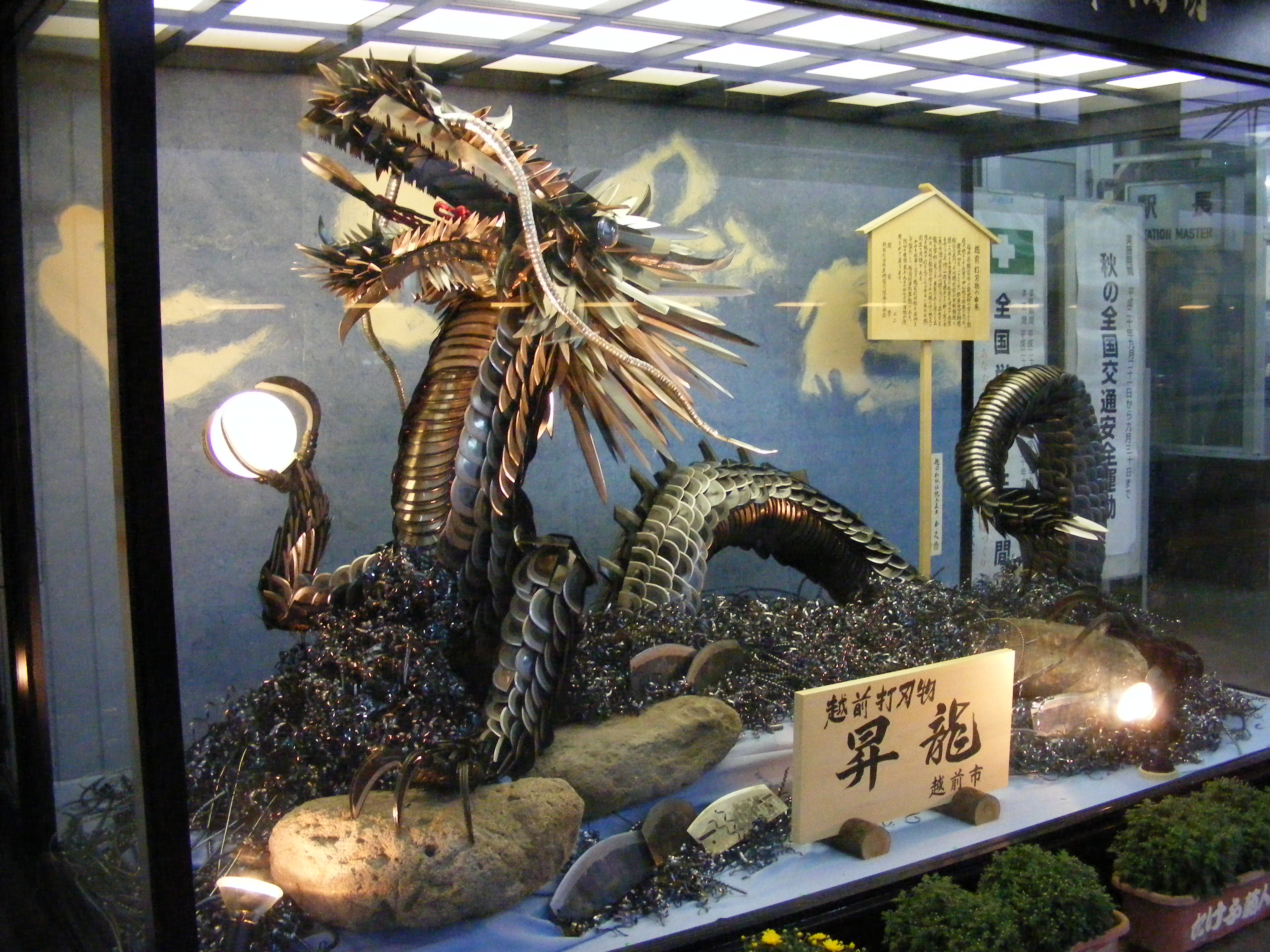 THe knife dragon at Takefu Station